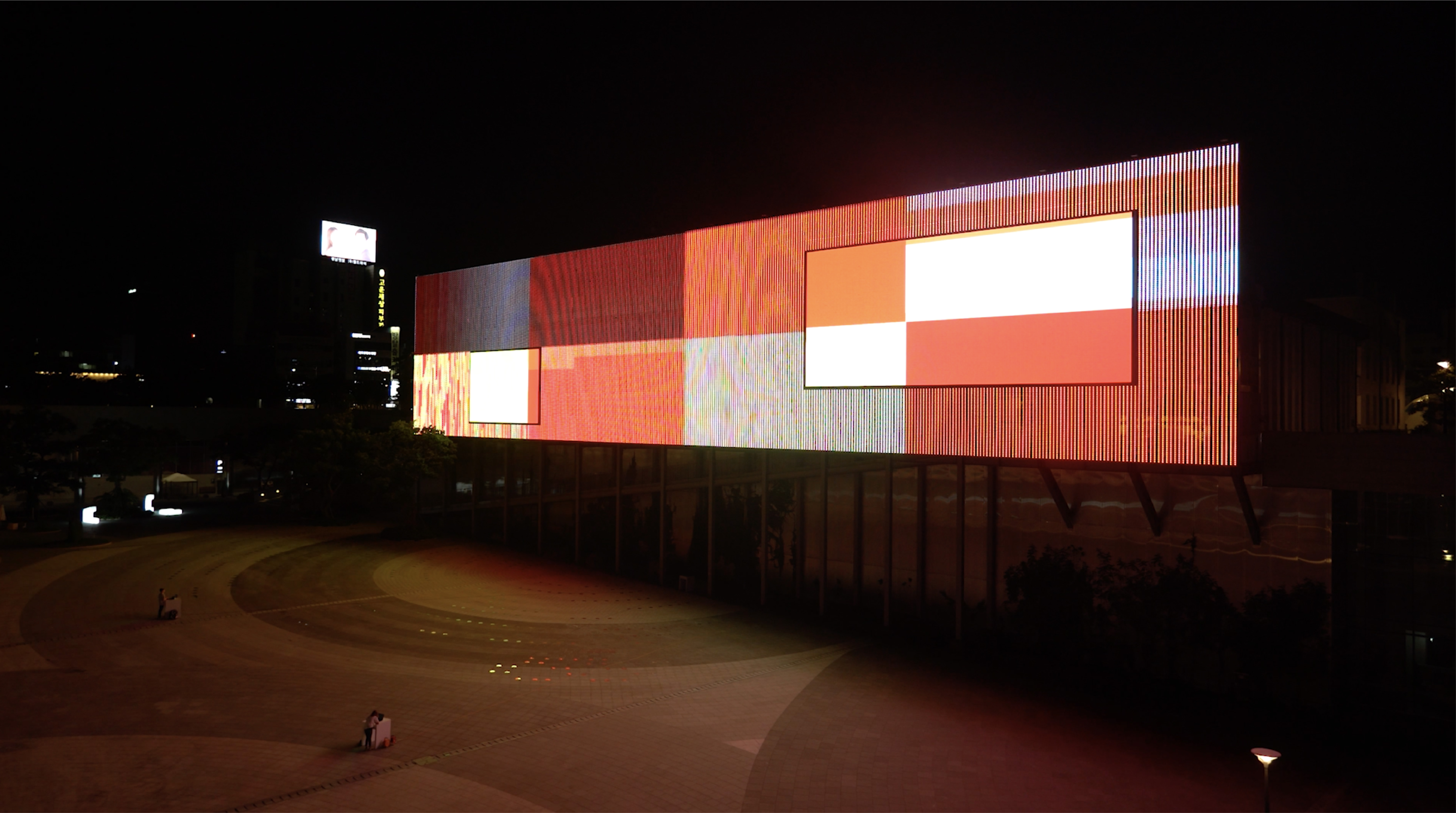 include red 75x16m 1,200㎡ liveperformance(2017)